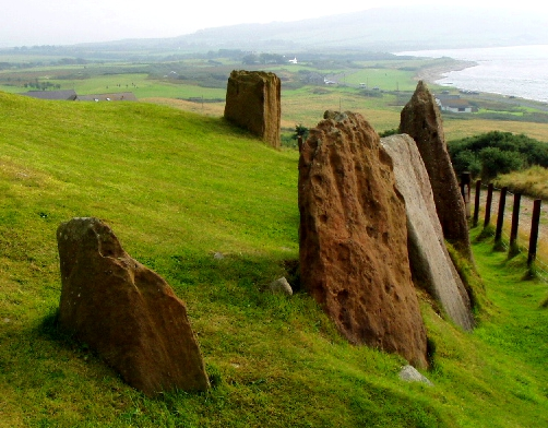 Cairn at Auchagallon